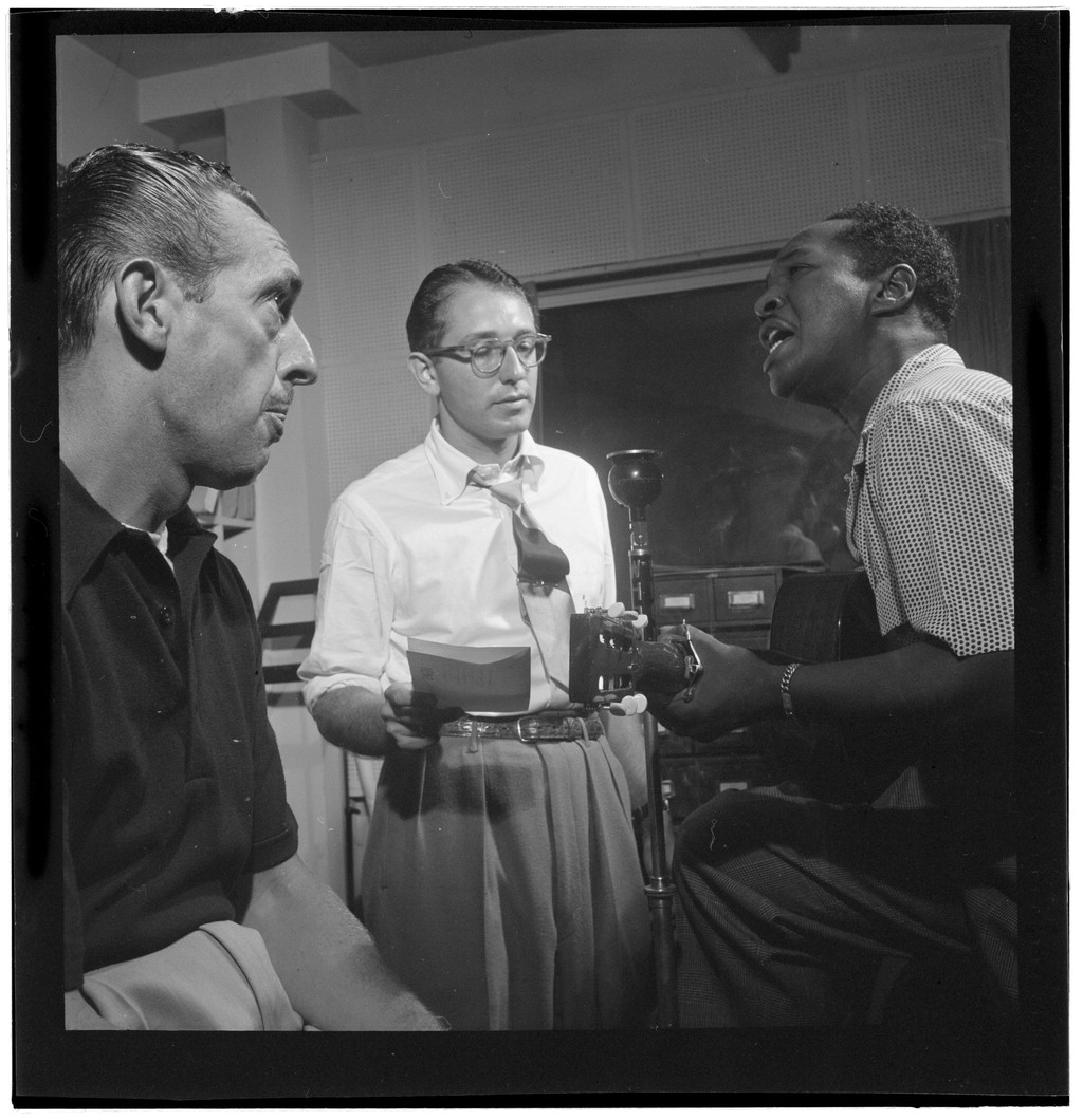 Symphony Sid and Josh White, WHOM, New York, N.Y., between 1946 and 1948